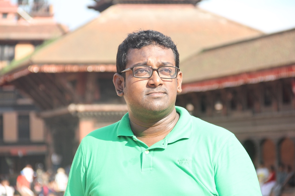 Mahmudul Haque Munshi in exile in Nepal